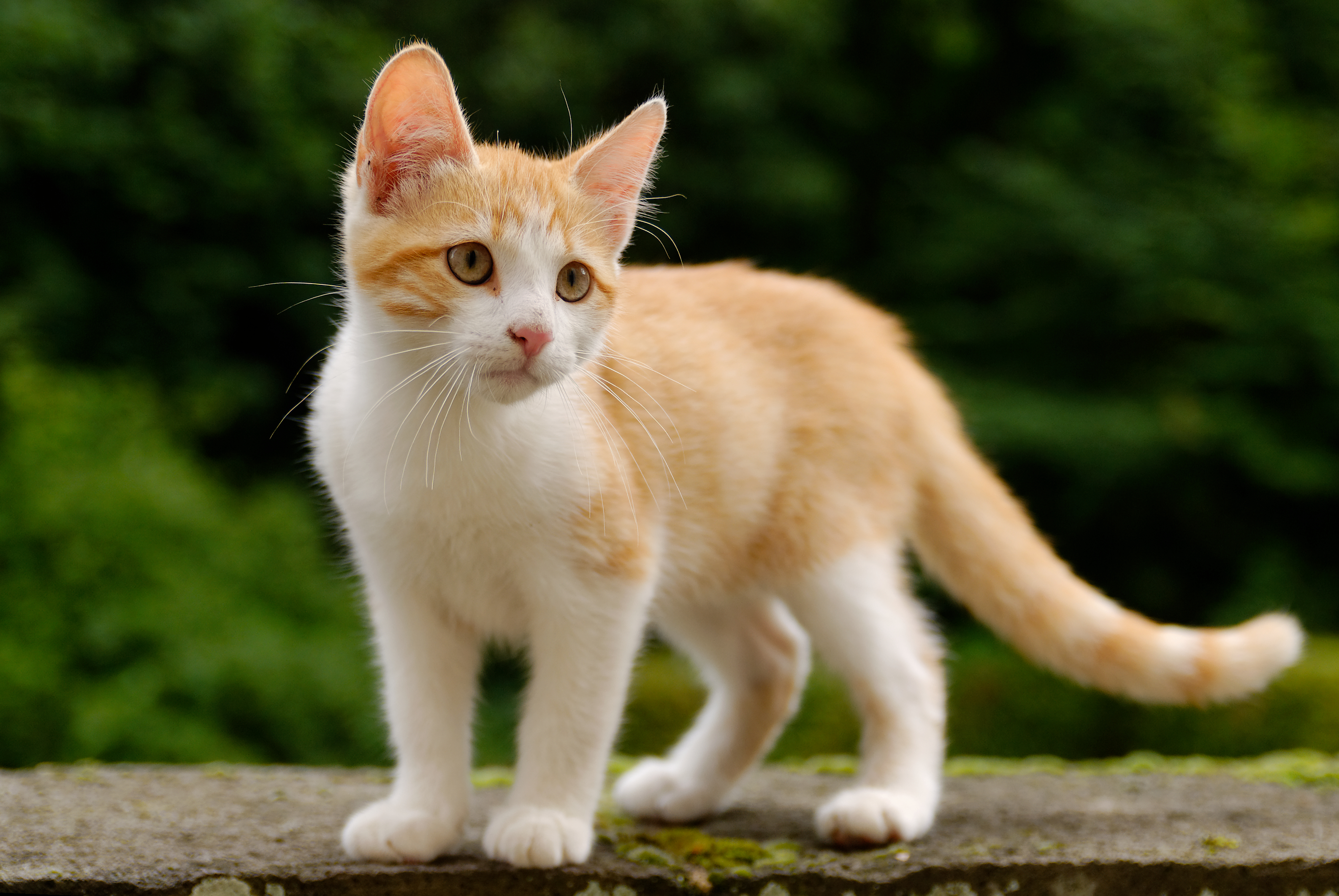 Gawain, a red tabby and white kitten.